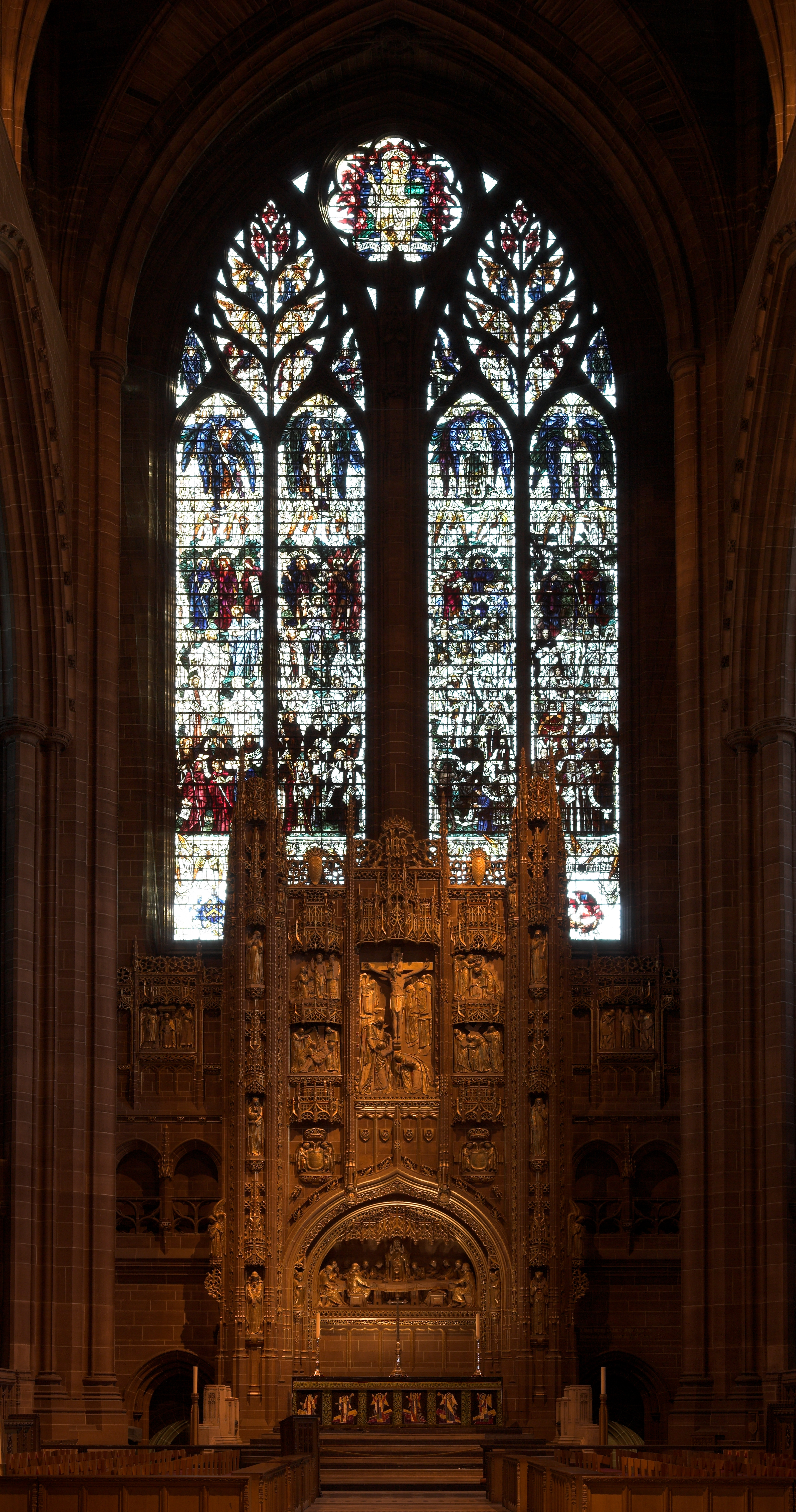 Liverpool Anglican Cathedral stained glass window. Canon EOS 20D with 17-85 IS USM lens @ 47mm, f/13 1.3 sec, ISO 200.